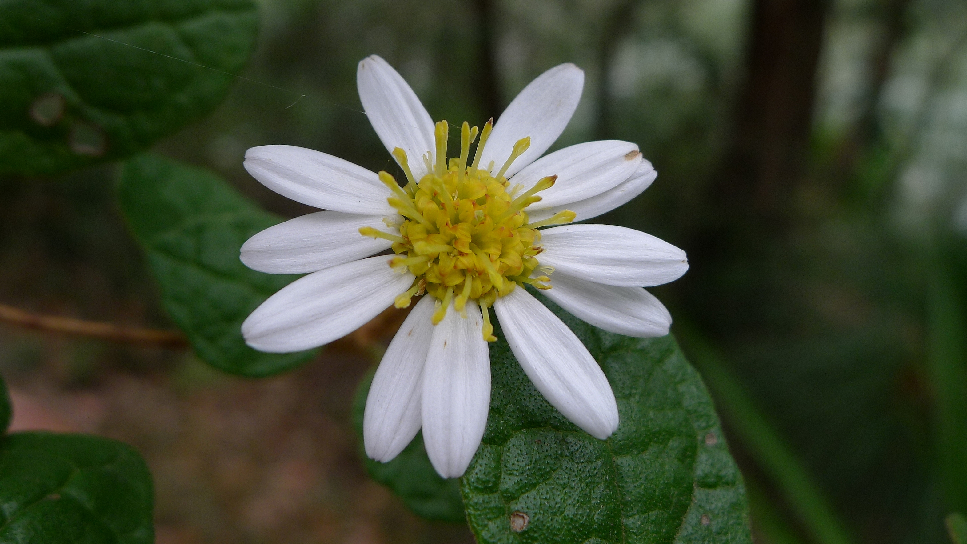 Toothed Daisy-bush, Olearia tomentosa. Woronora River, Woronora NSW Australia, October 2011.